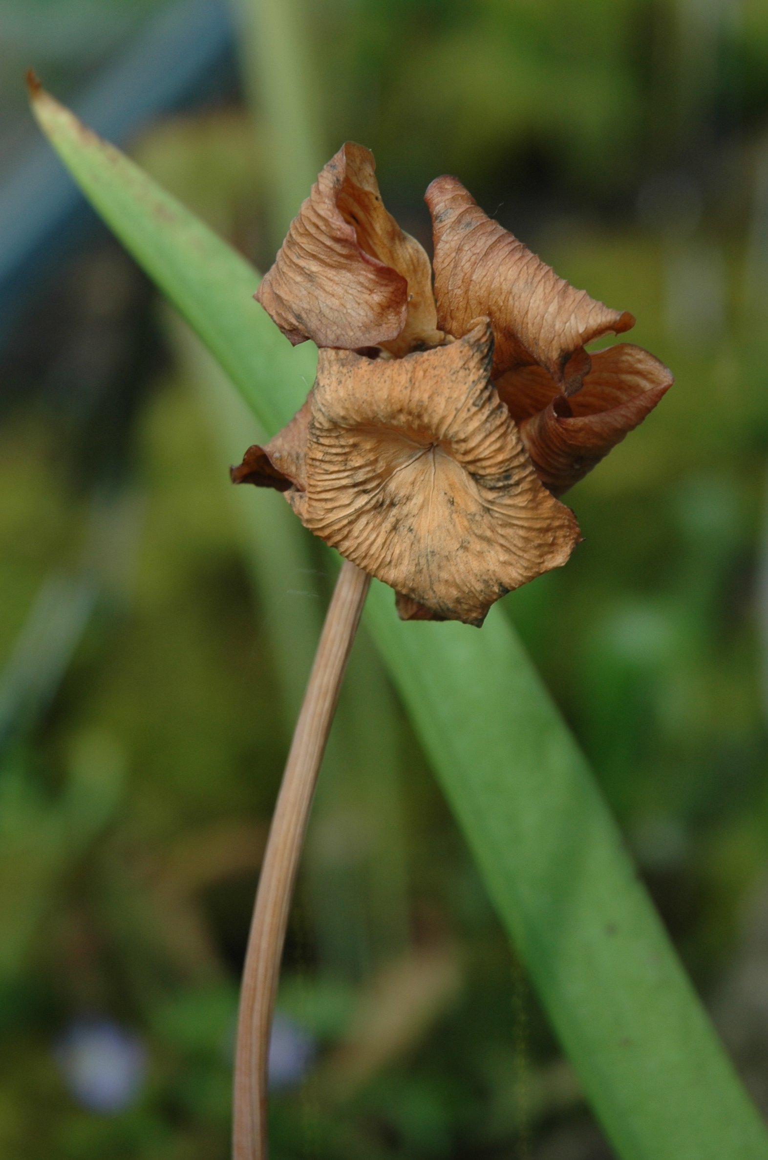 Dry fruit of Sarracenia purpurea at Jena Botanical Garden, Germany